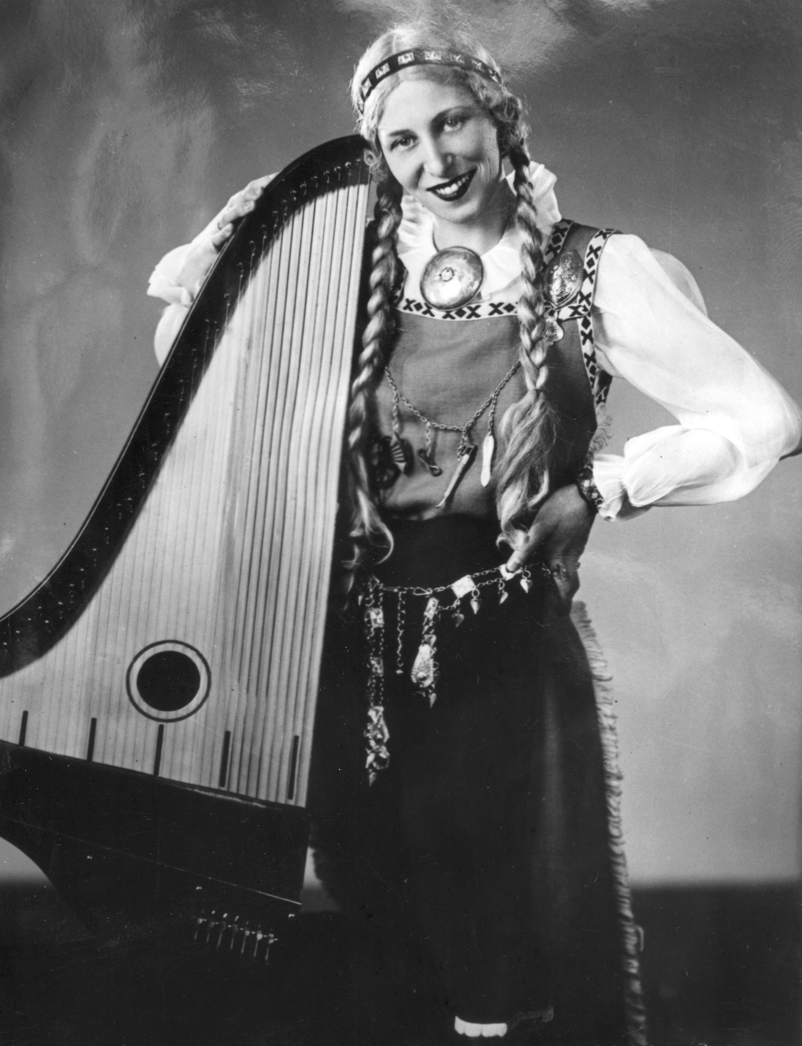 Photograph of the Finnish kantele player Ulla Katajavuori (1909–2001).